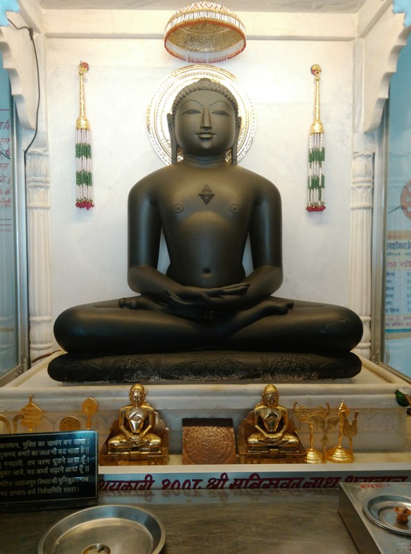 atishykari muni suvratnath prabhu jahazpur dist bhilwara this idol found in year 2012 on mahavir jaynati during niv khudai @ muslim people house. this is very miracle idol .